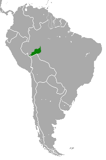 Hershkovitz's Titi (Callicebus dubius) range